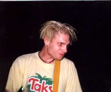 A photo of Gabor Szakacsi on stage (1998)